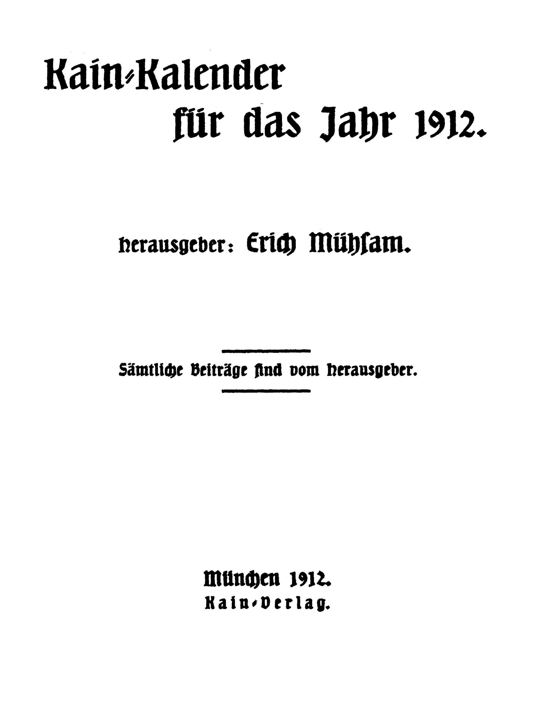 This is a scan of the historical document: Kain-Kalender für das Jahr 1912